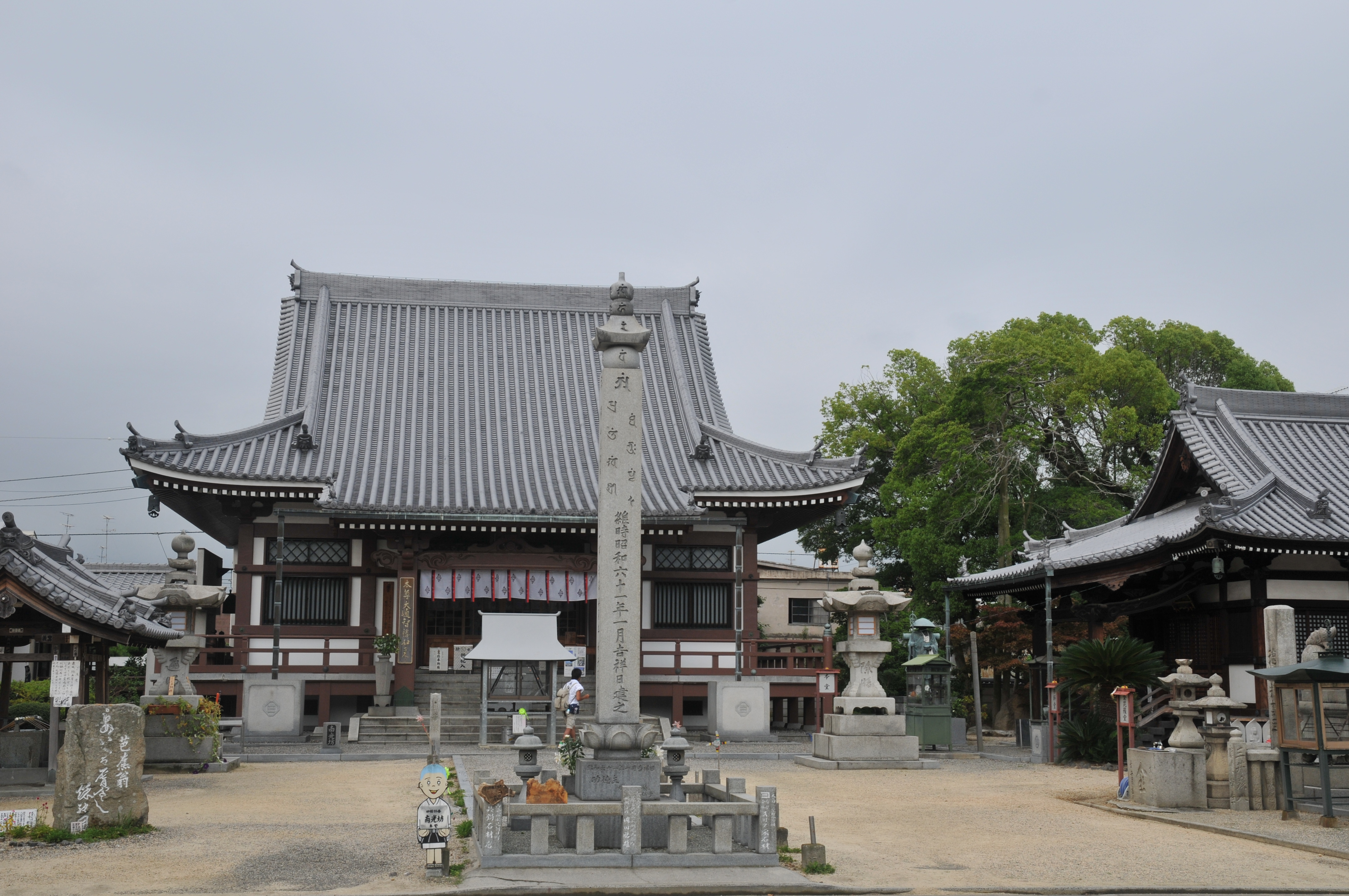 Main temple, Nankō-bō